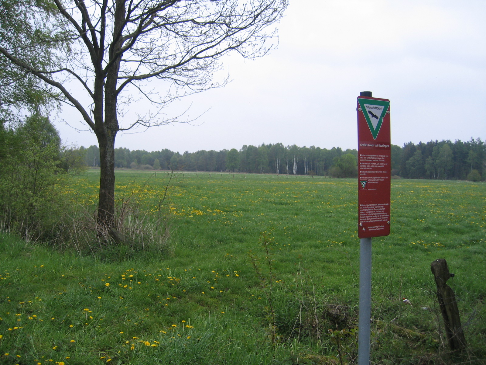 Part of the Großes Moor near Becklingen, Lower Saxony, Germany, looking right (E) of the track from Becklingen towards woods near the centre of the reserve.